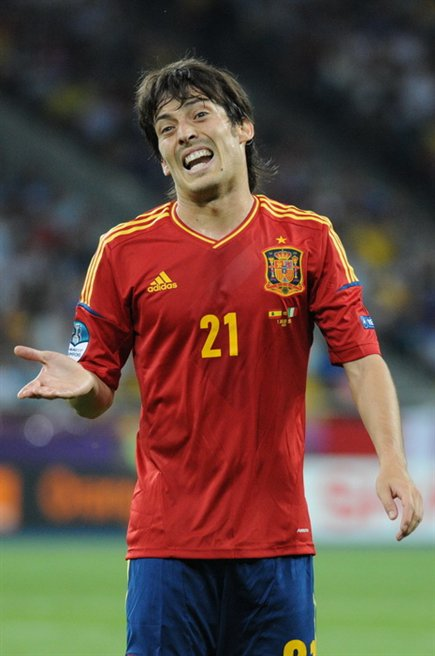 David Silva at Euro 2012 final Spain-Italy